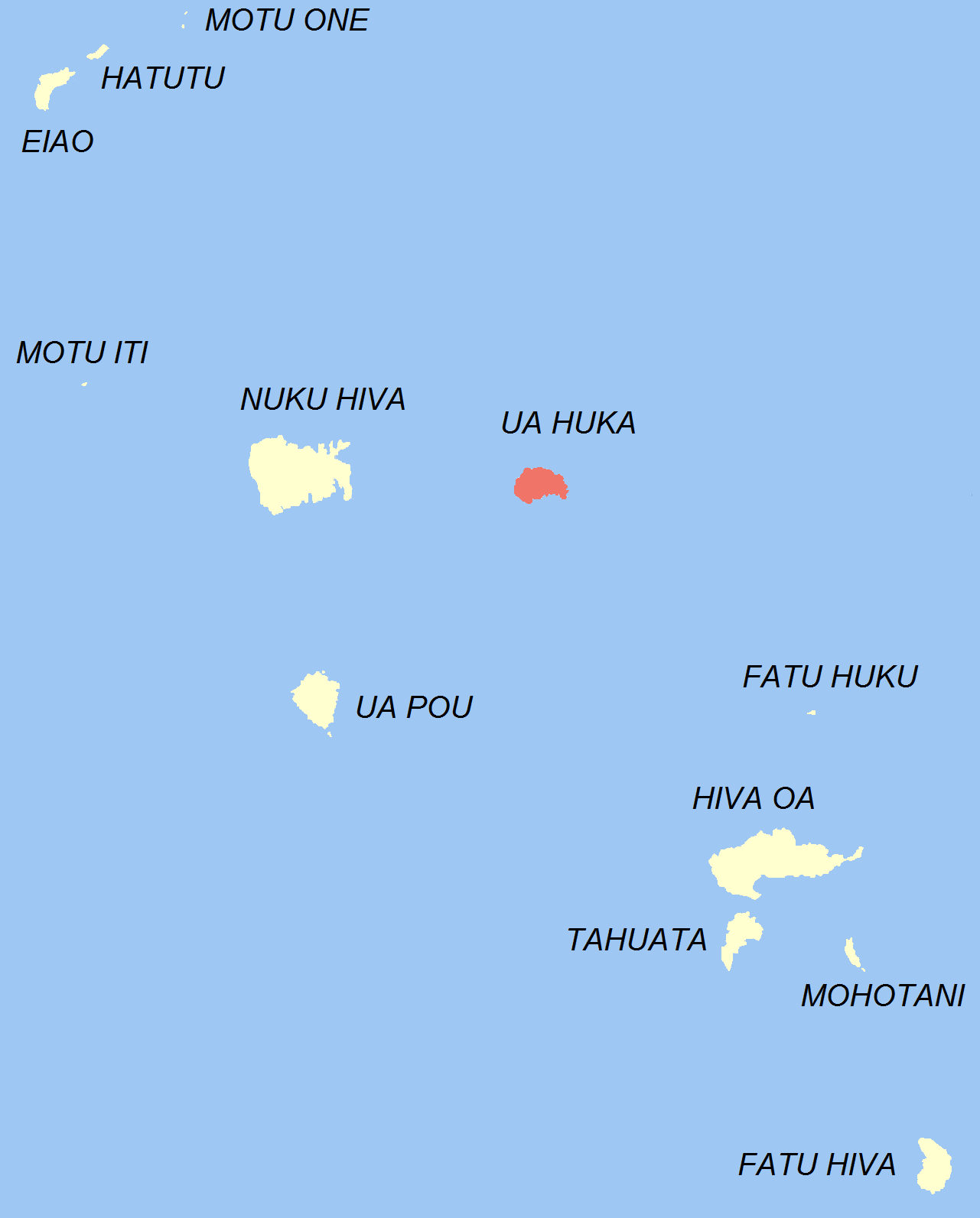 Map of the commune of Ua-Huka, made by myself.